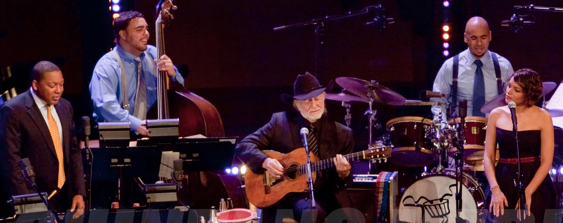 Willie Nelson, Wynton Marsalis and Norah Jones in Concert promoting the album Two Men With the Blues